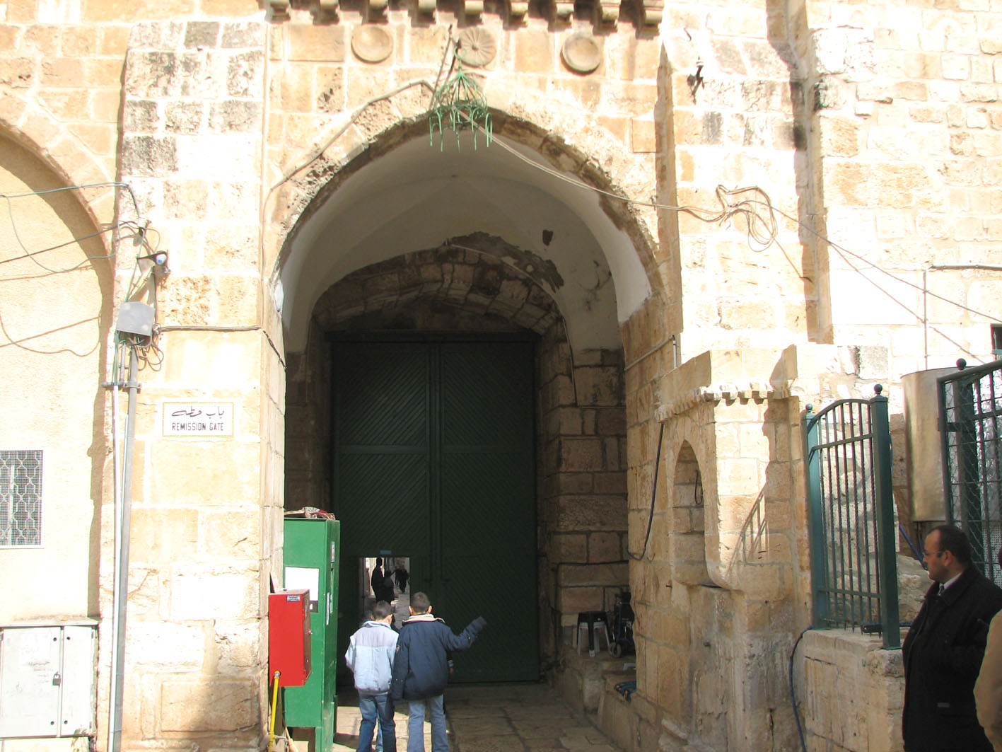 Al-Aqsa Mosque